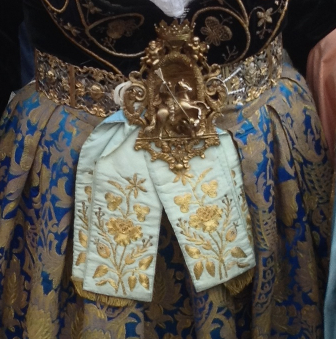 Arbëreshë costume from Piana degli Albanesi, Sicily - belt buckle